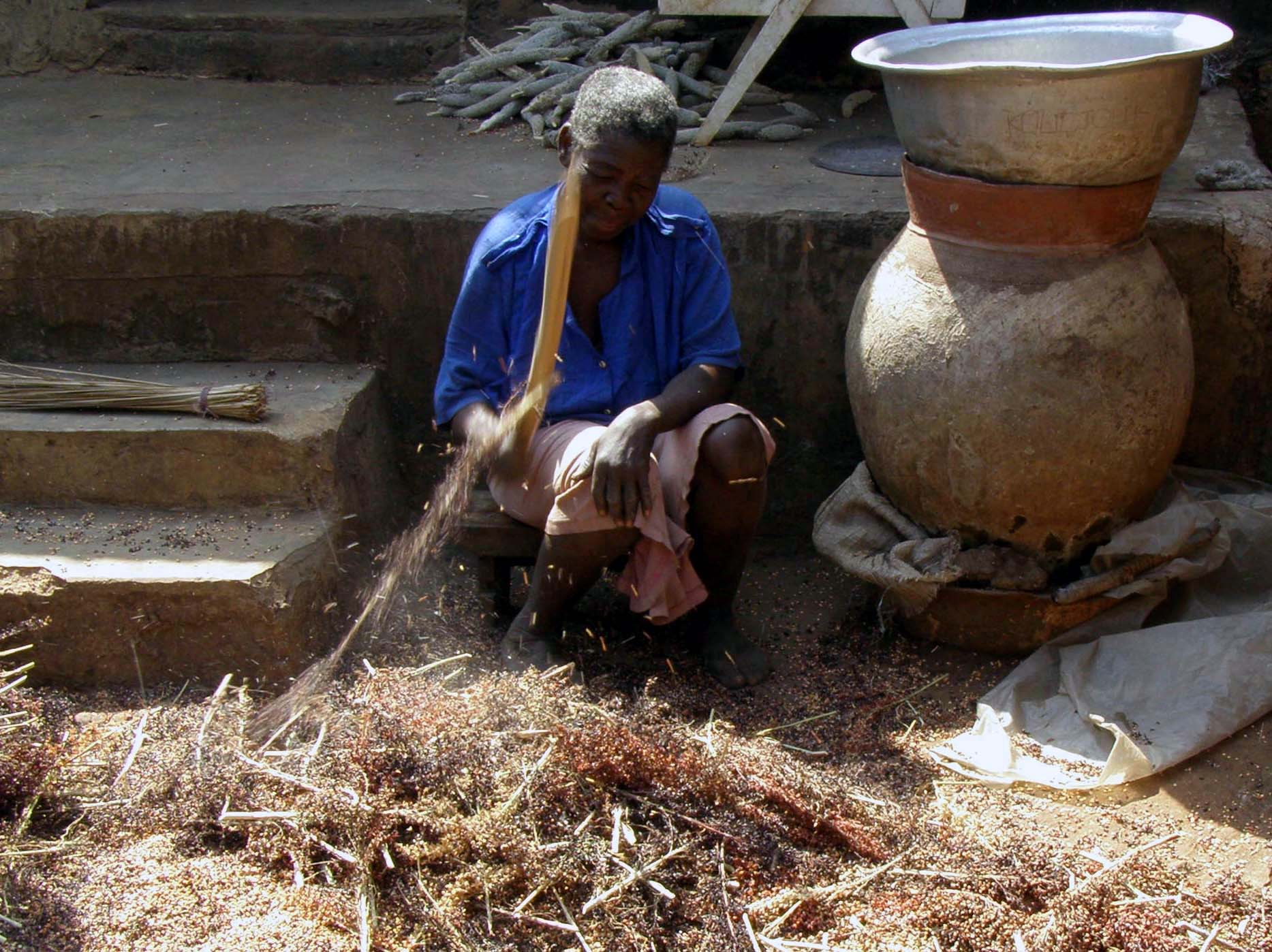 Village of Lassa, Togo